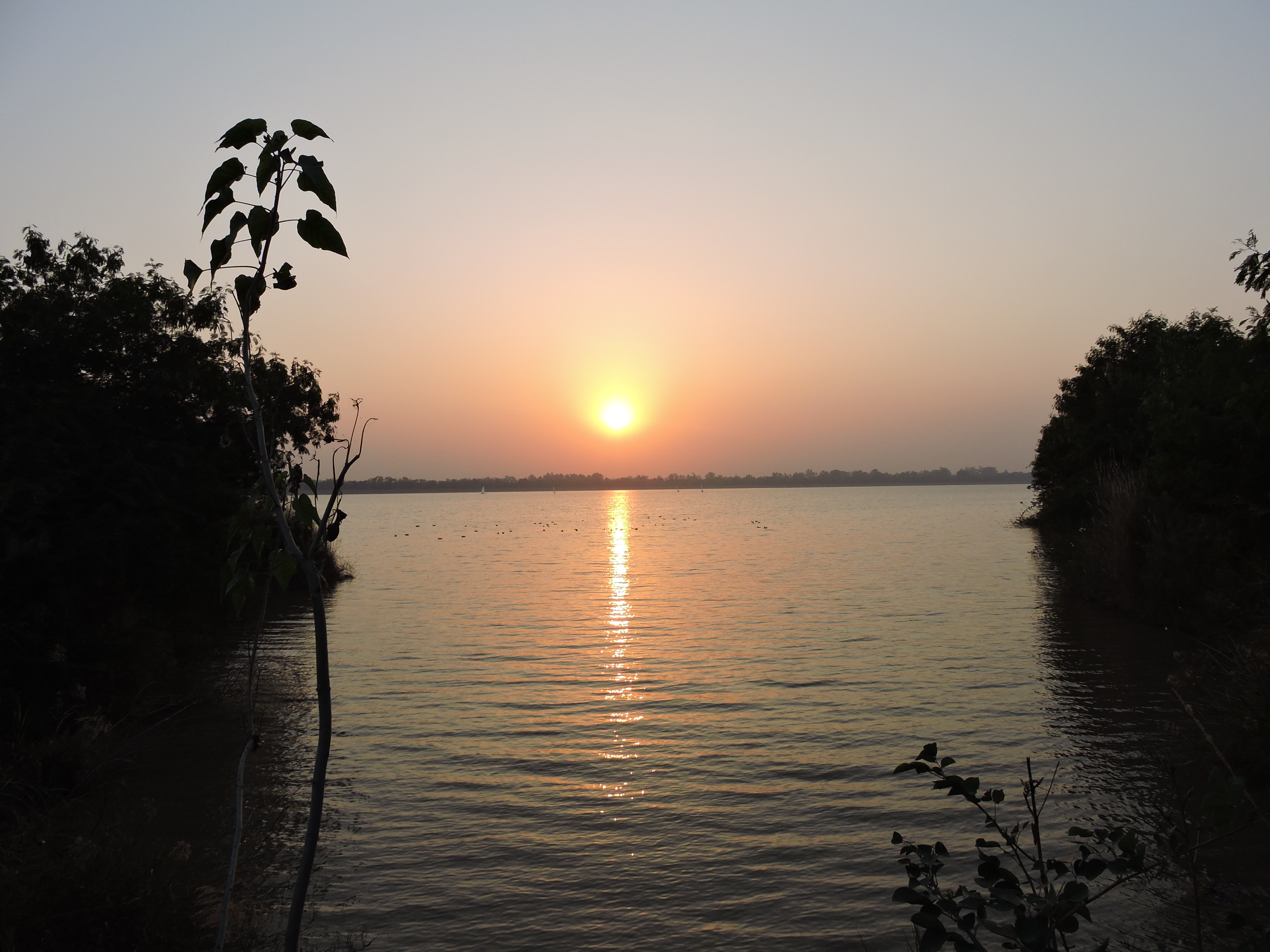 Sunset view at Sukhna Lake ,Chandigarh , India